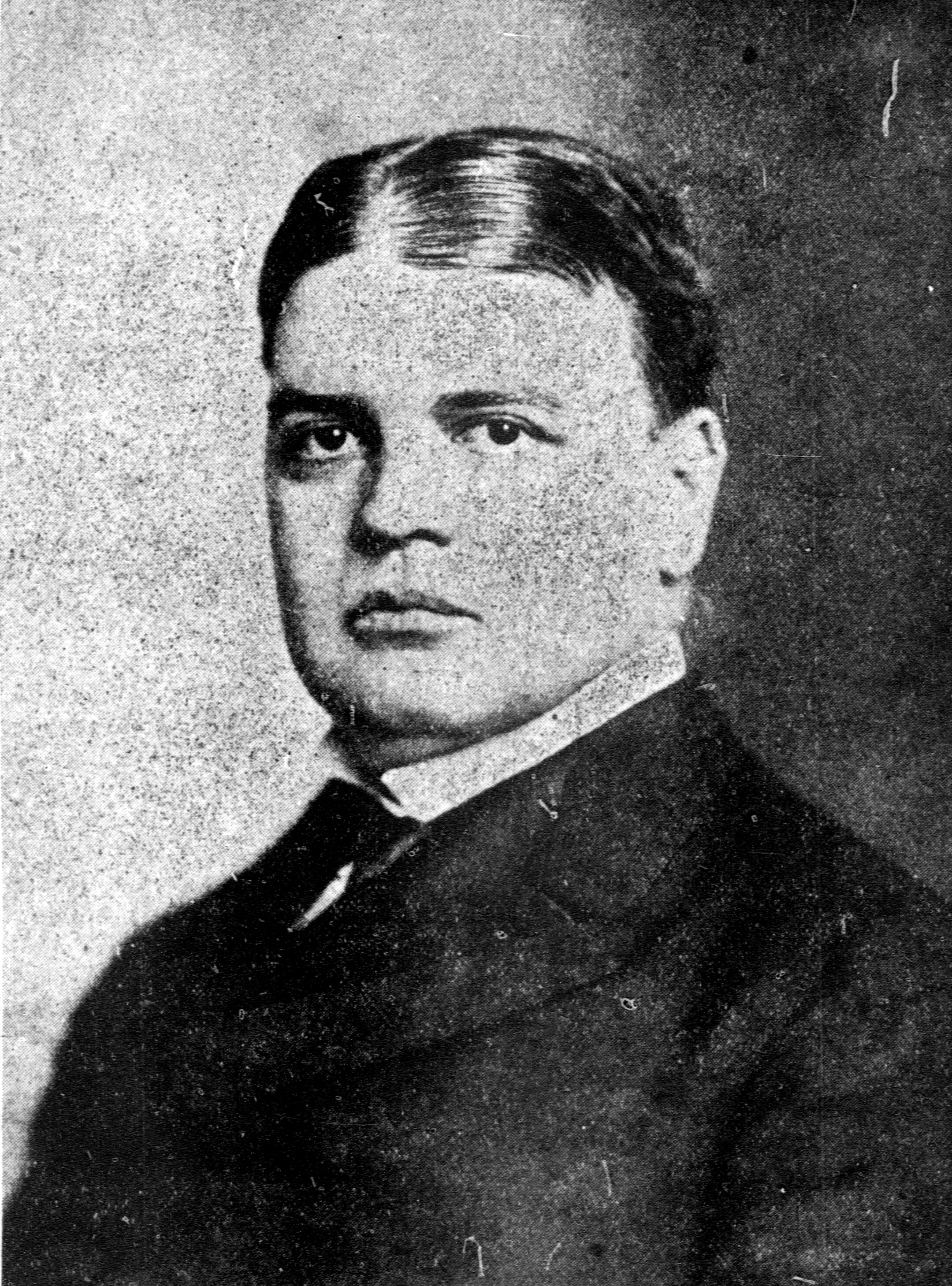 Timothy Lester Woodruff, circa 1900